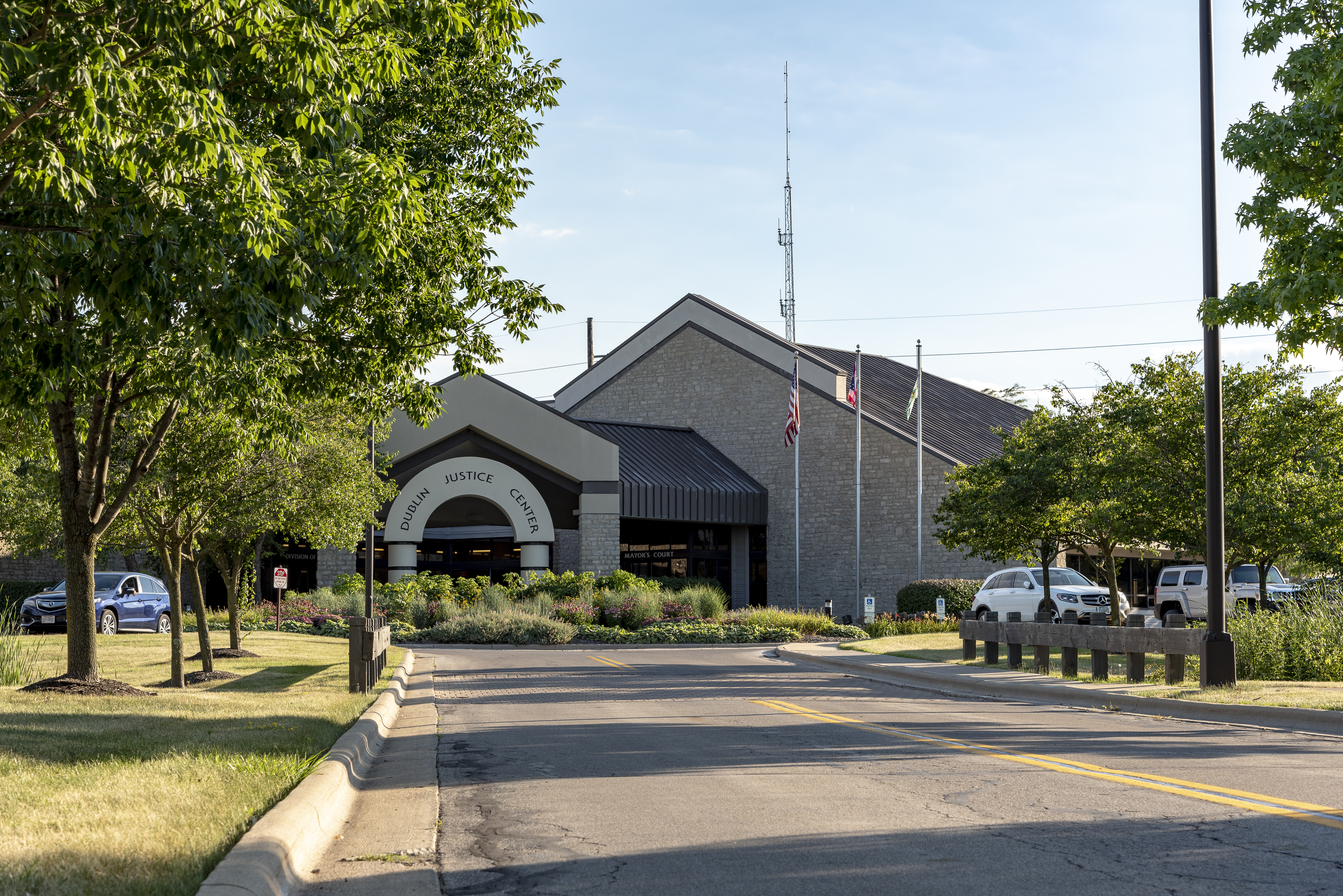 Dublin, Ohio Justice Center, headquarters of the Dublin Police Department and Dublin Mayors court. Viewed from the northeast. License plates of unknown individuals intentionally blurred to protect their privacy.